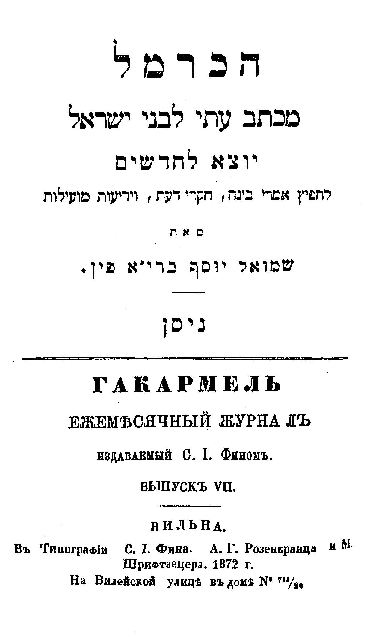 "Ha-Karmel", Hebrew newspaper printed in Vilna 1860-1880.